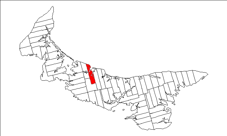 Public domain map of Prince Edward Island created by User:Plasma east with data courtesy of Geogratis, modified to show townships. Released under GFDL (self).